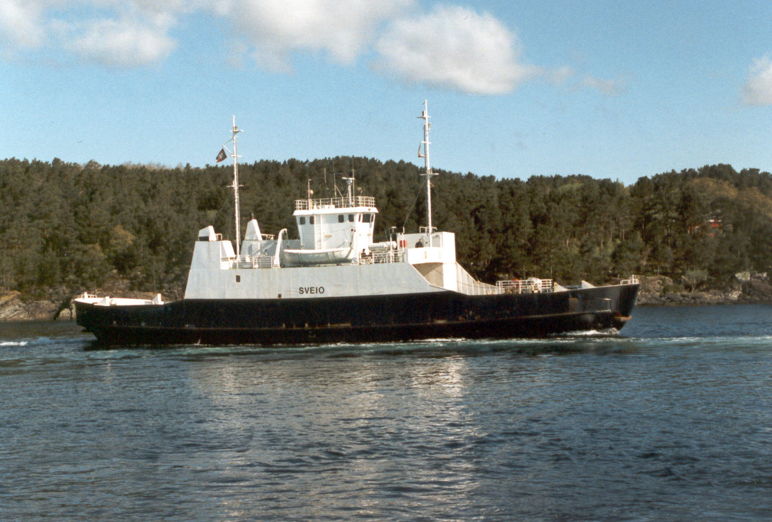 MF Sveio, built 1975 as MF Rødberg